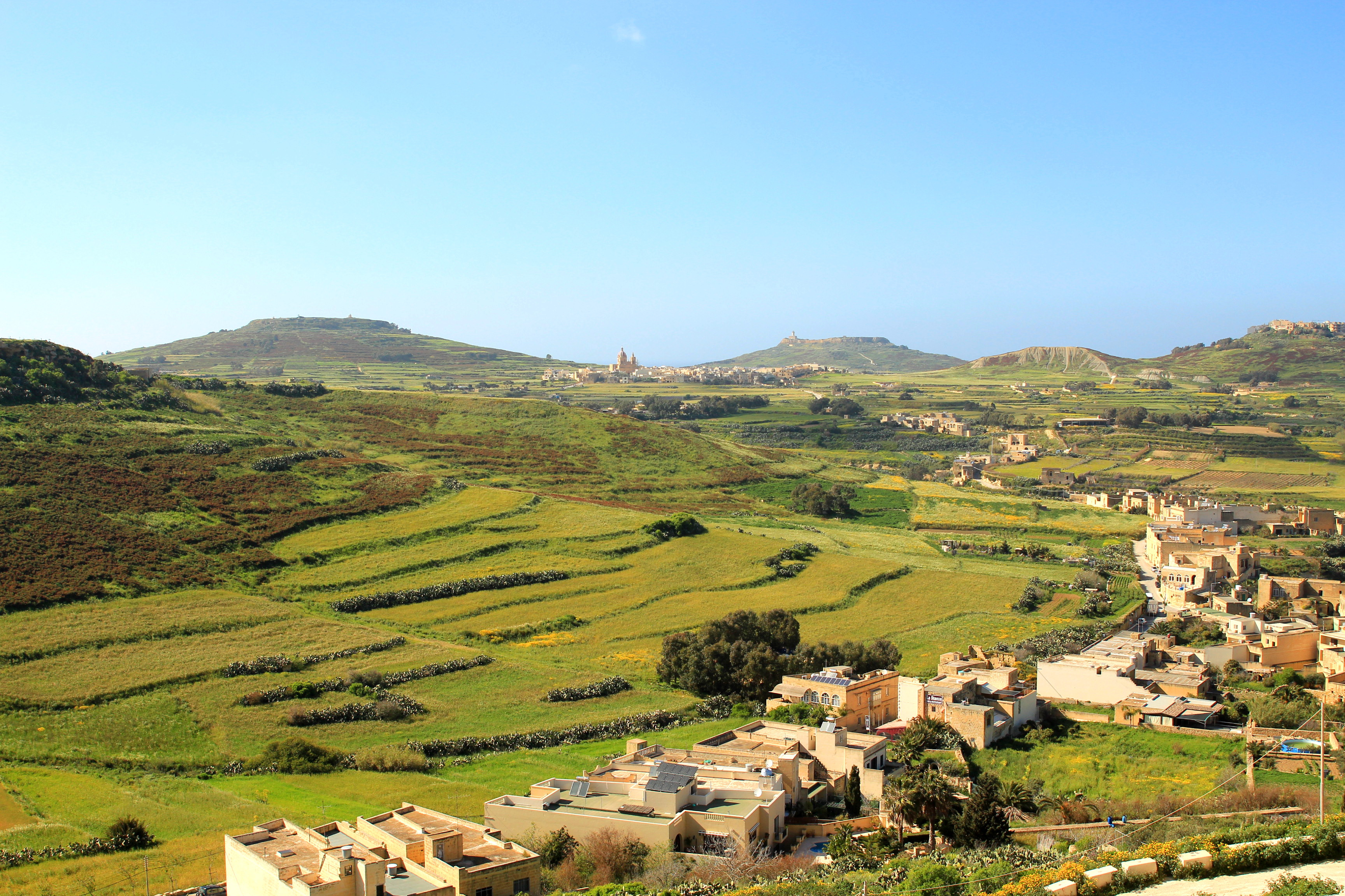 Panorama of Gozo, Malta